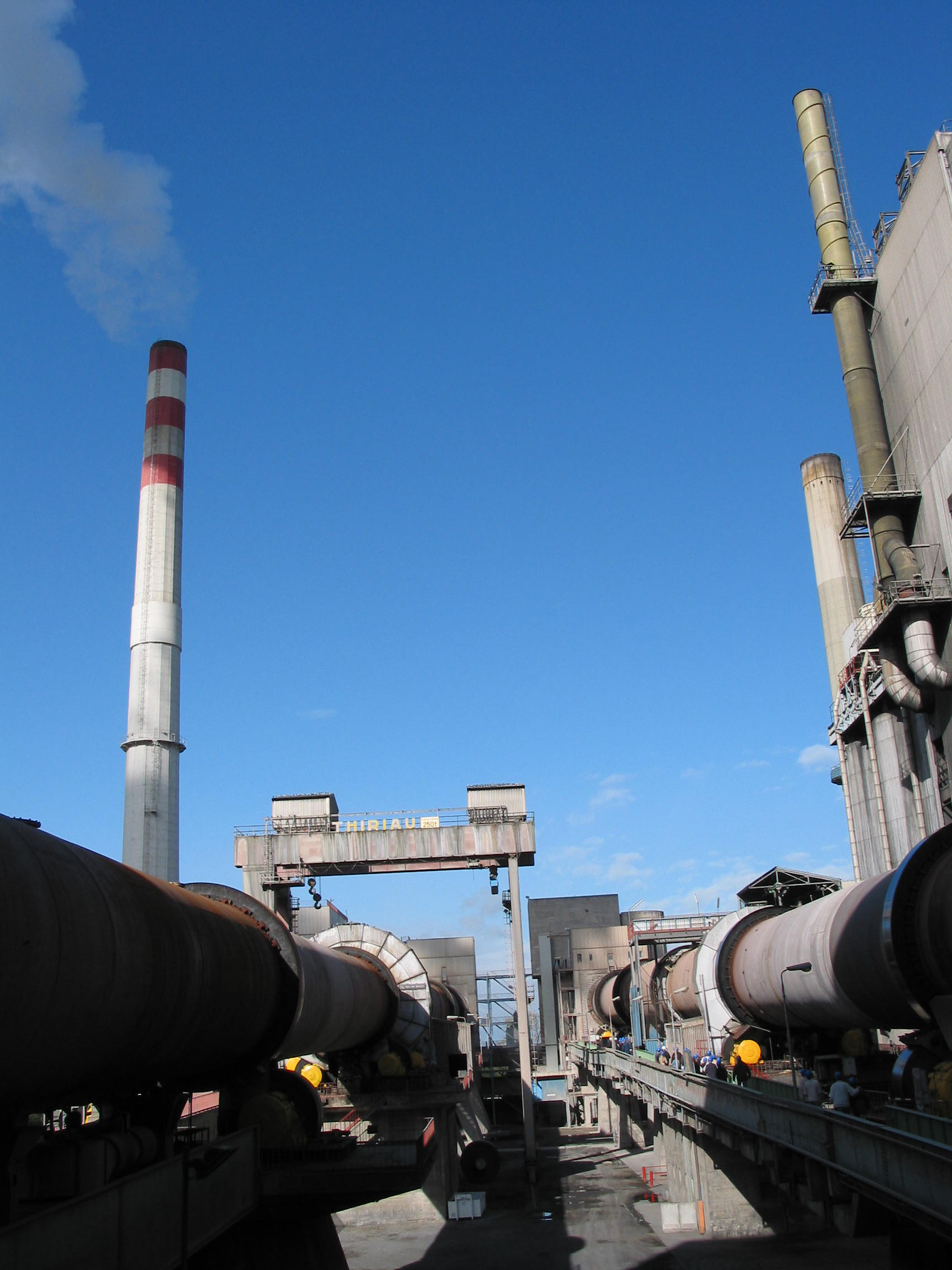 Obourg (Belgium), the HOLCIM cement factory.